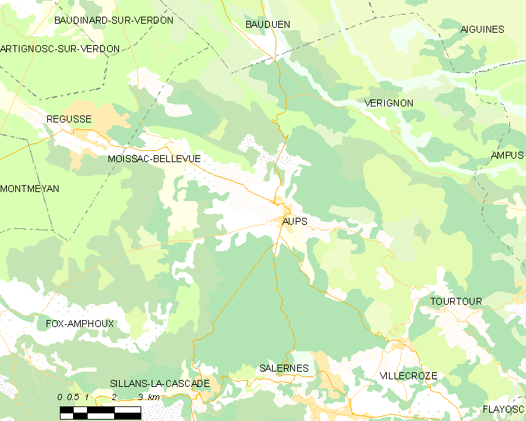 Map of French municipality Aups